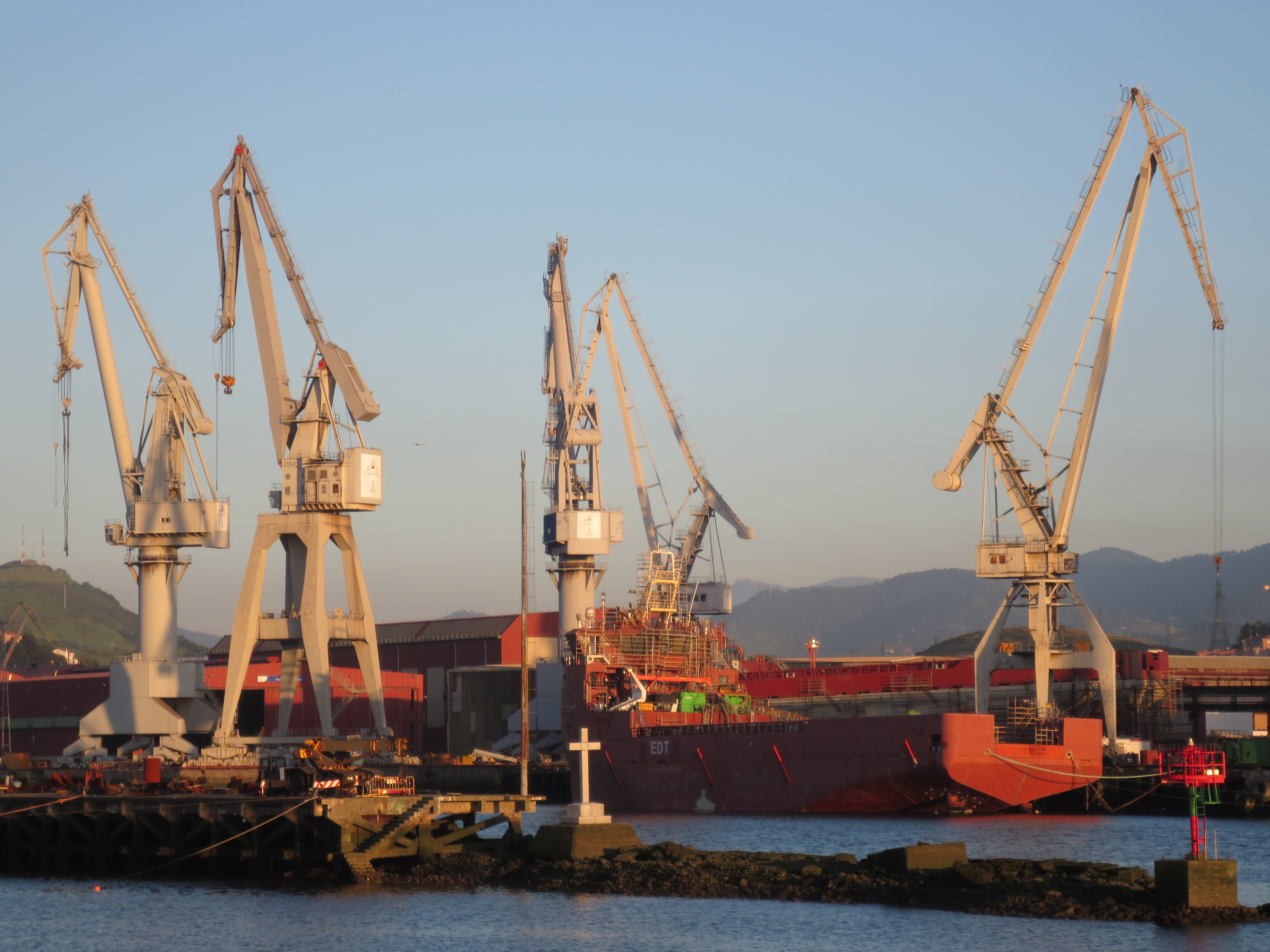 Shipyard cranes in Sestao, Biscay, Basque Country